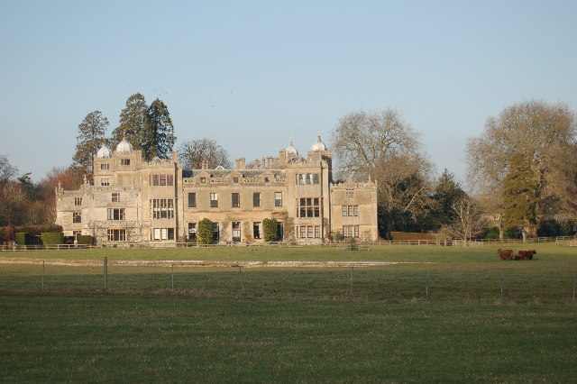 Charlton Park near Malmesbury. The house was originally seat of the Earl of Suffolk, now is apartments. It is Jacobean in origin and partly open to the public one afternoon per week in the summer.